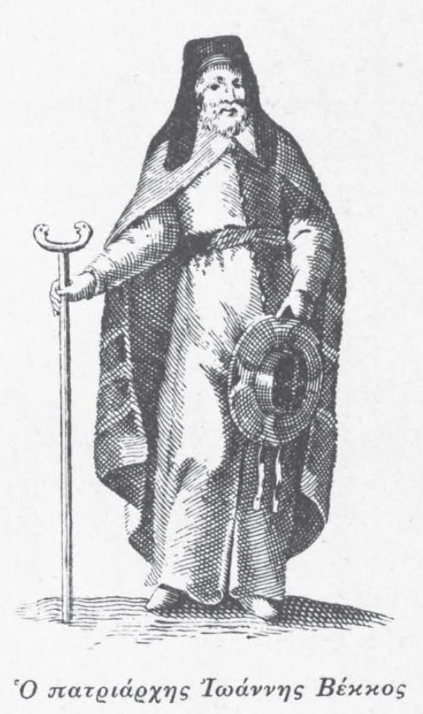 His All Holiness Ecumenical Patriarch Ioannis Bekkos